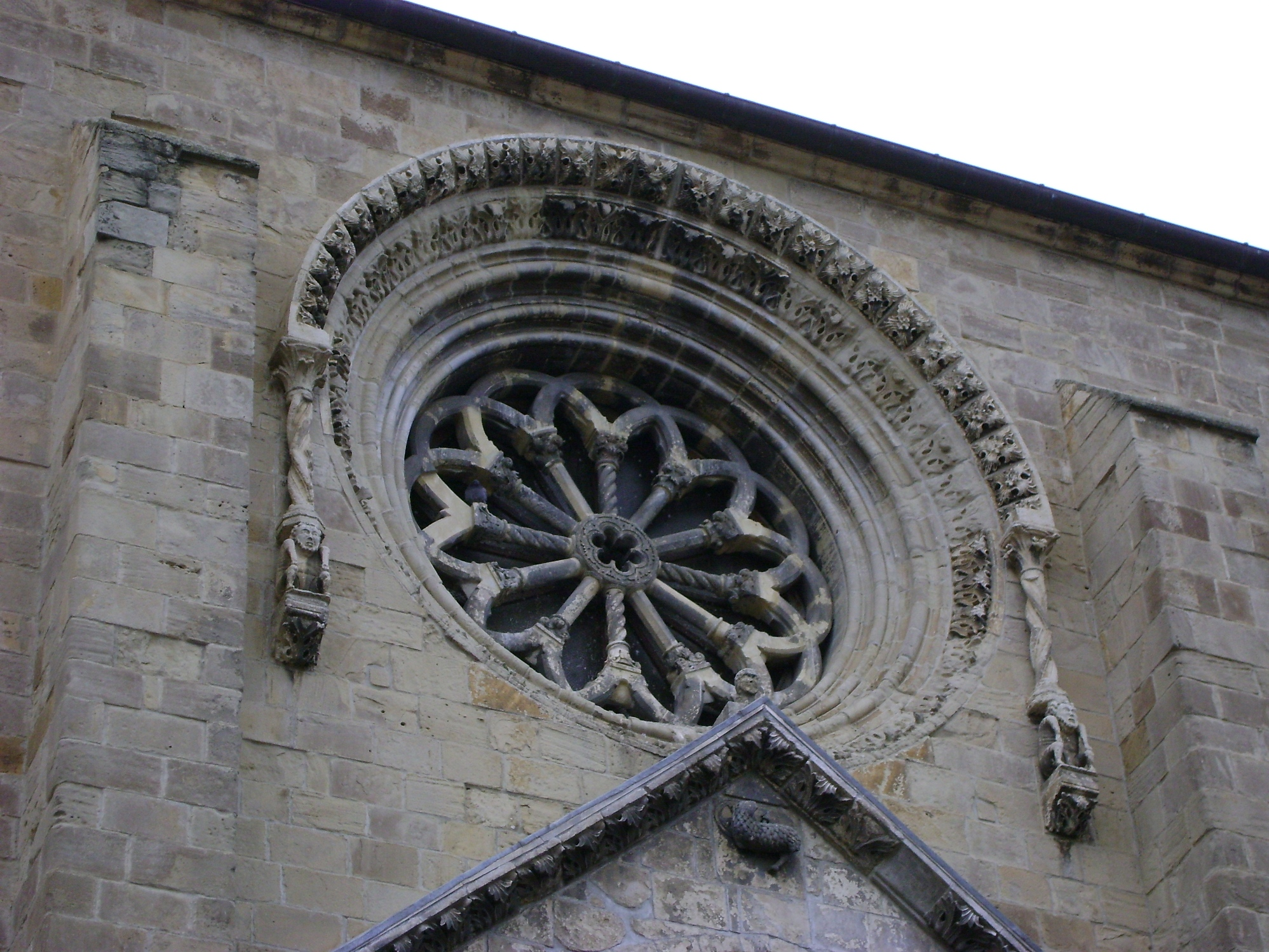 The rose window of the church of Santa Maria Maggiore, Lanciano, province of Chieti, Abruzzo